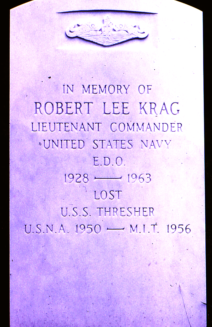 Arlington National Cemetery Memorial Stone for USS Thresher. Taken with an Automatic Exakta VX 35mm SLR, using Ektachrome slide film.